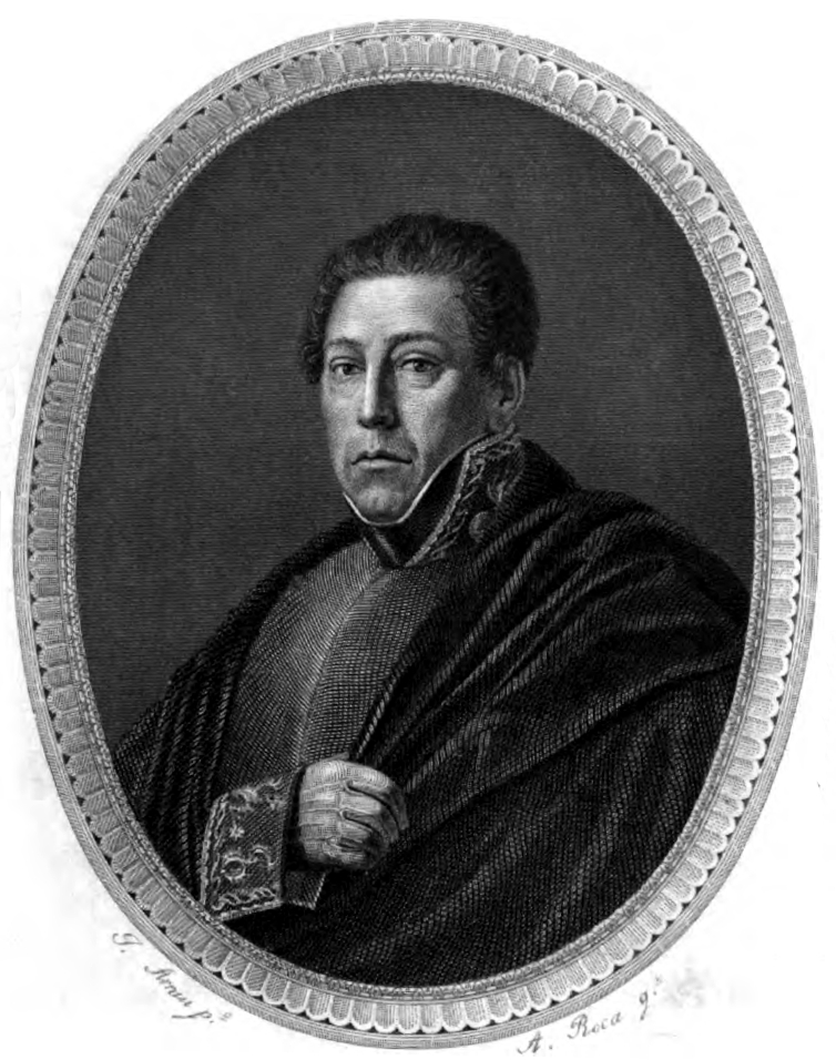 Portrait of Andreu Avel·lí Pi i Arimon made by the engraver Antonio Roca i Sallent (Barcelona? - Barcelona, 1869) from an oil portrait of natural size made by painter Josep Arrau Barba in 1838.